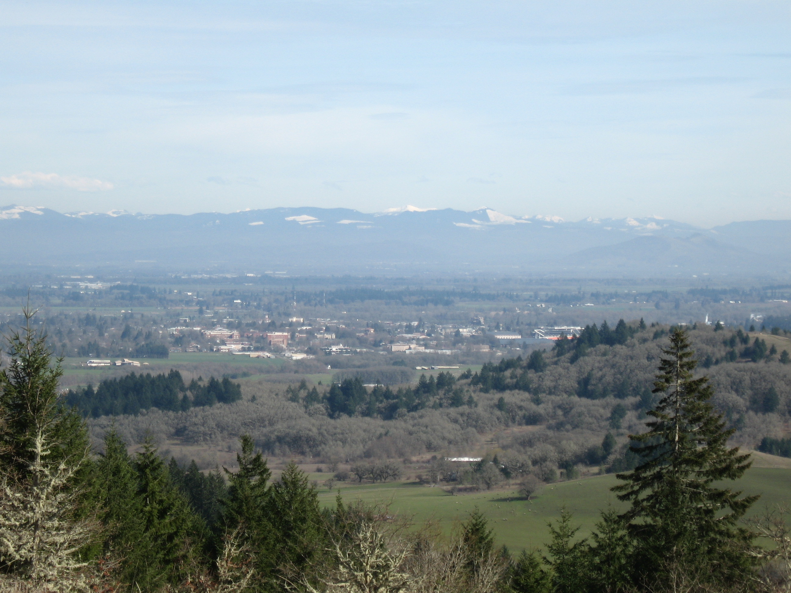 View of Corvallis from Fitton Green